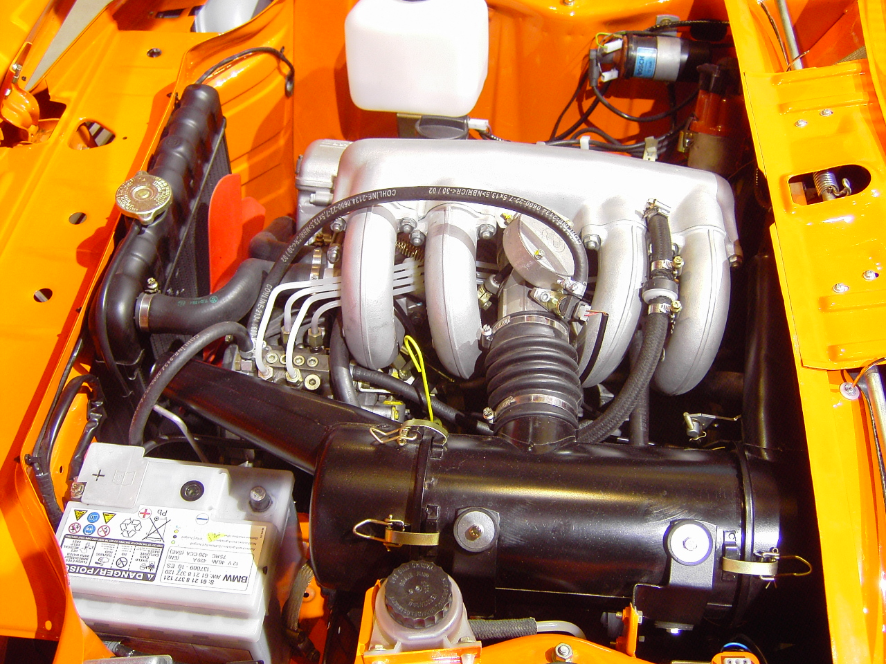 Engine of BMW 2002 tii with Kugelfischer Fuel Injection